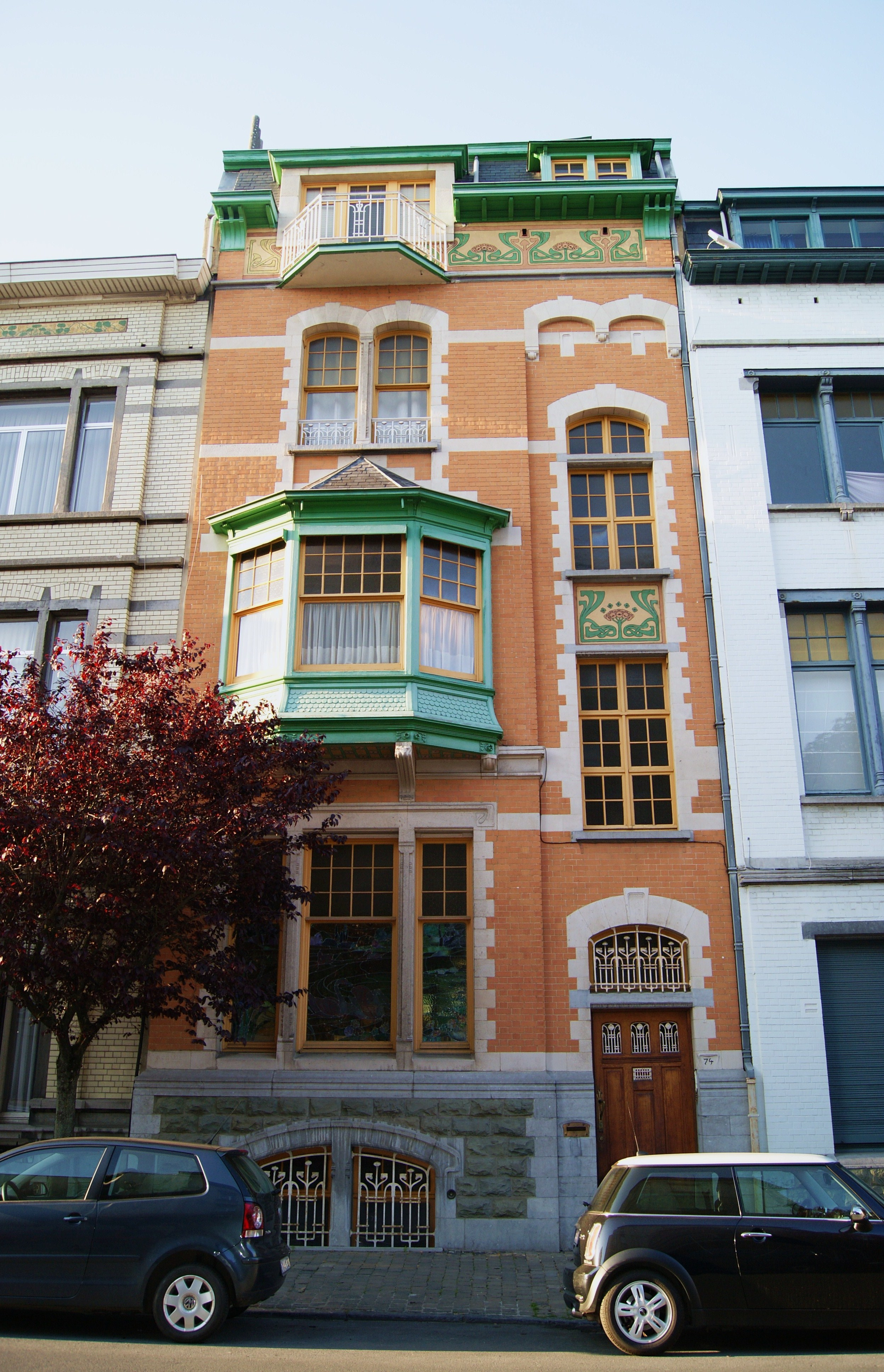 The artist Lemmers' home and studio. The house was built in 1904 by Gabriel Charles. The style is Eclecticism. Address: 74 Reform Street, Ixelles, Brussels, Belgium.